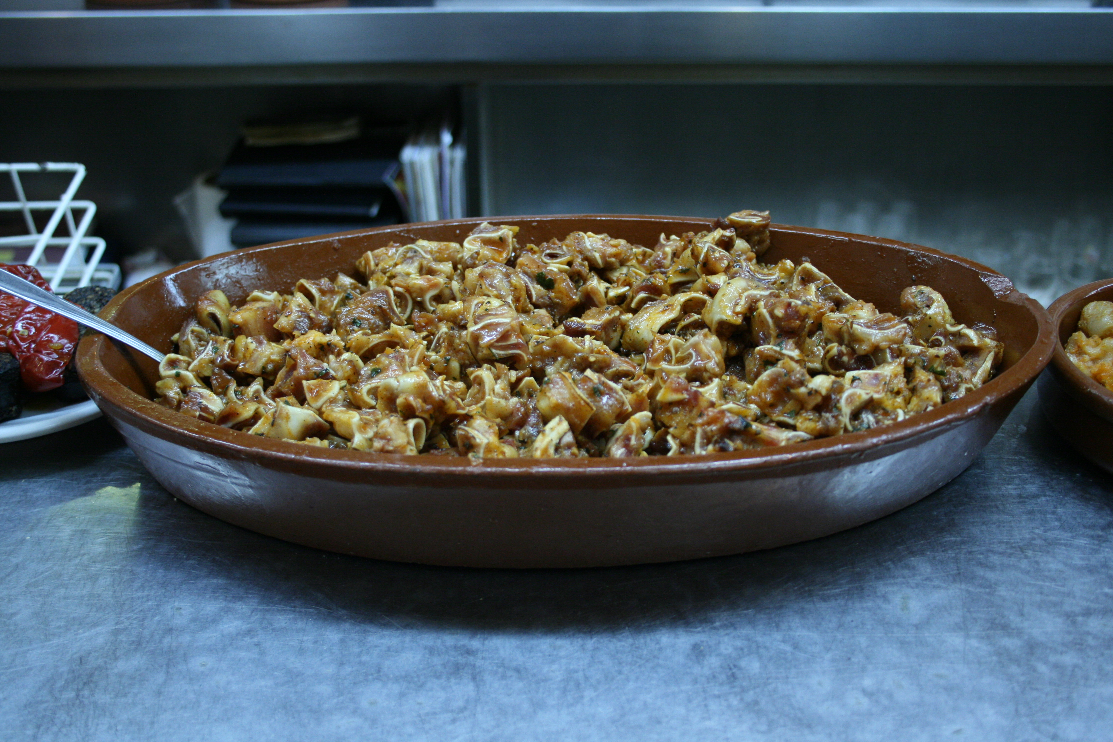 pork ear in sauce